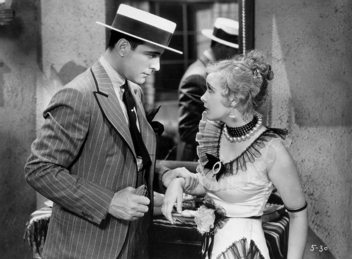 Still of Ricardo Cortez and Helen Twelvetrees from the American drama film Her Man (1930).